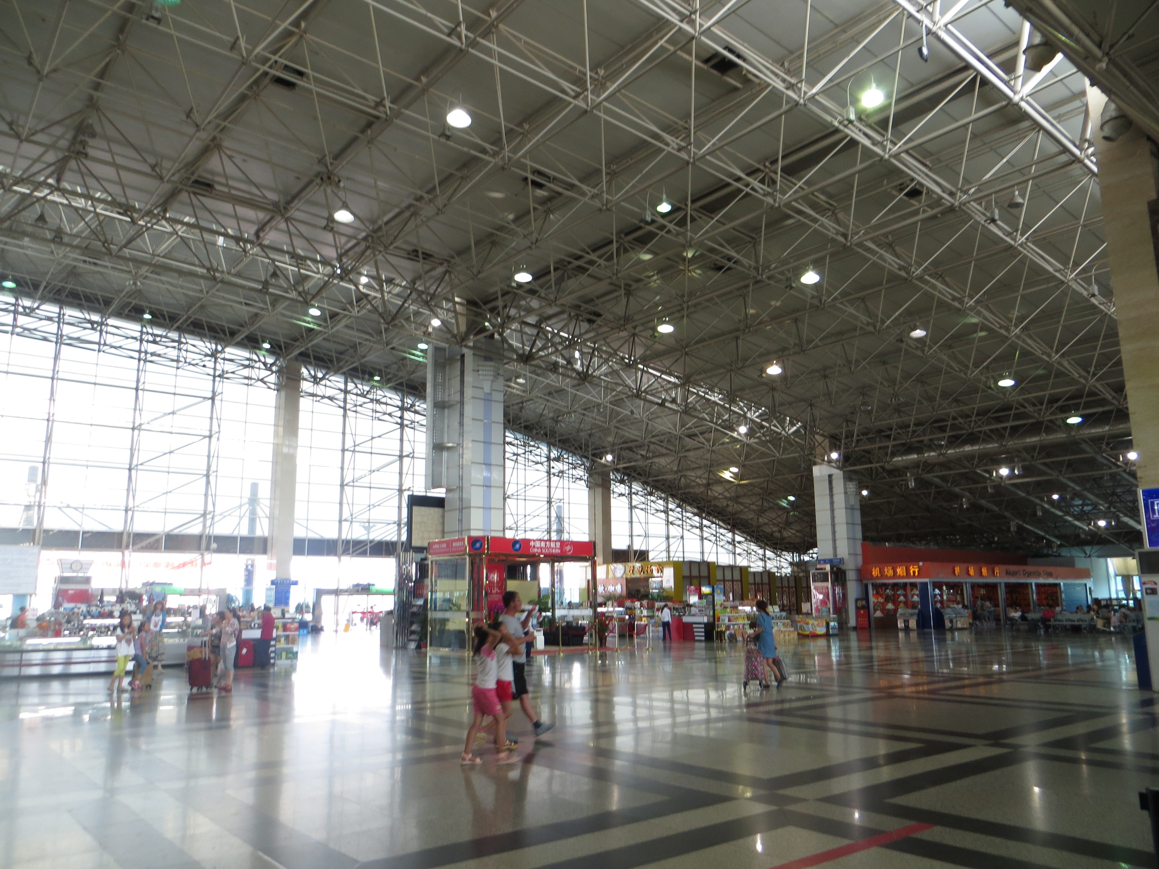 Inside Guilin Airport, China.